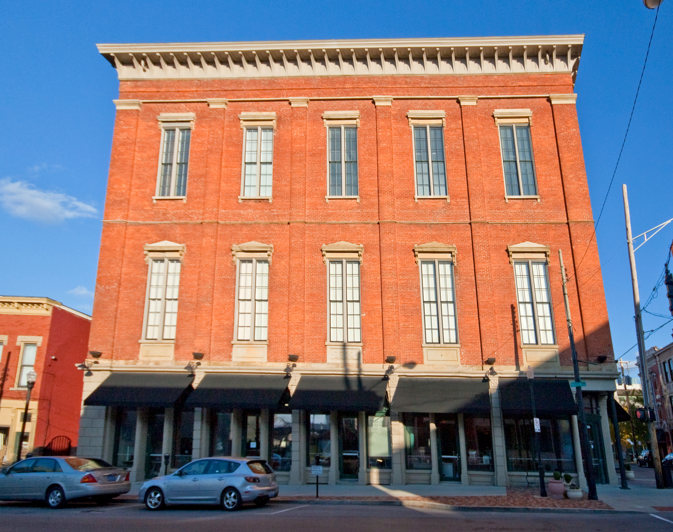 Odd Fellows Hall in Covington, Ky Attribution: Photo by Greg Hume